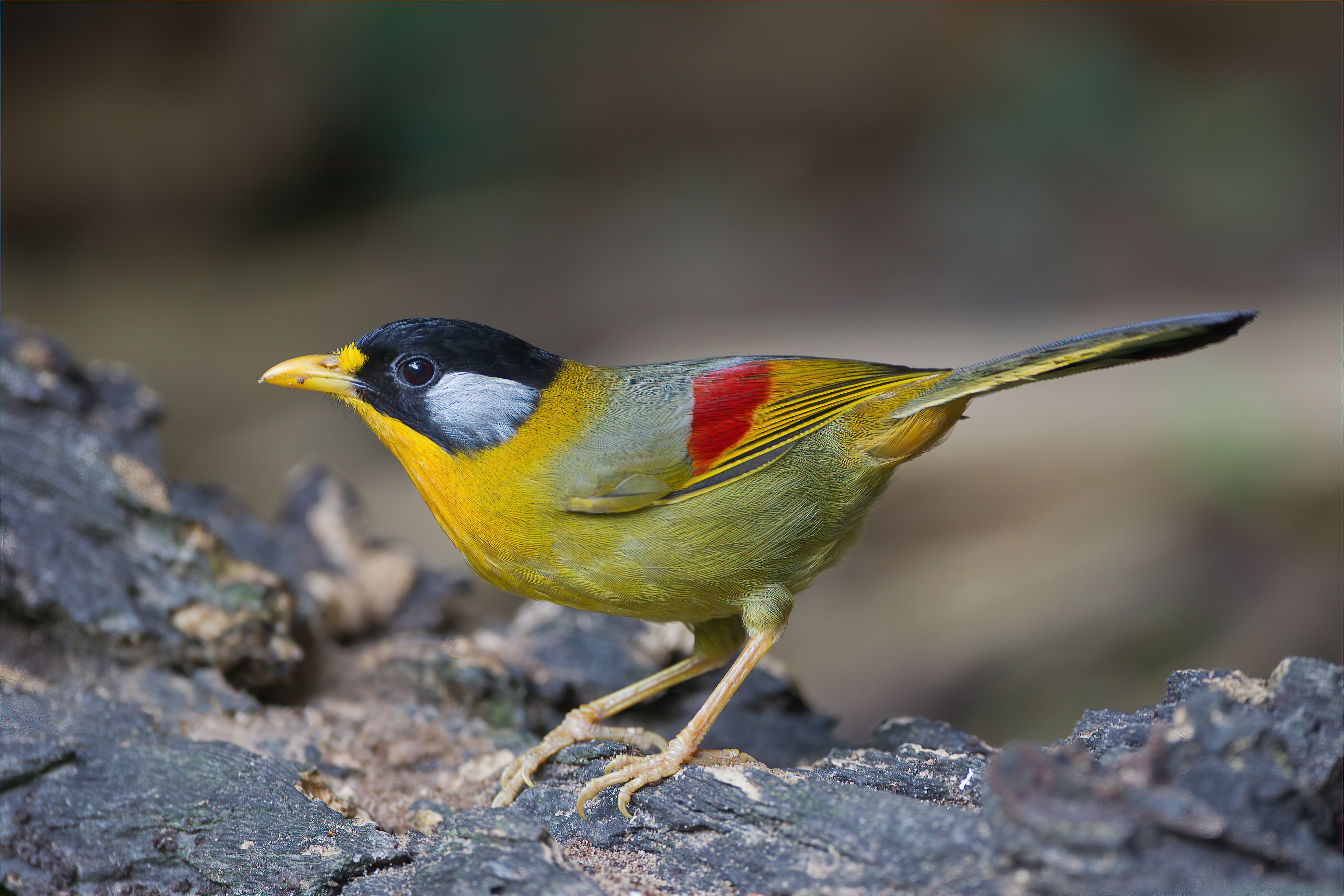 Silver-eared Mesia (Leiothrix argentauris), Mae Wong National Park, Nakhon Sawan,Thailand.